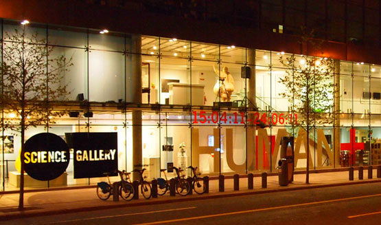 Science Gallery Dublin on Pearse Street at Night